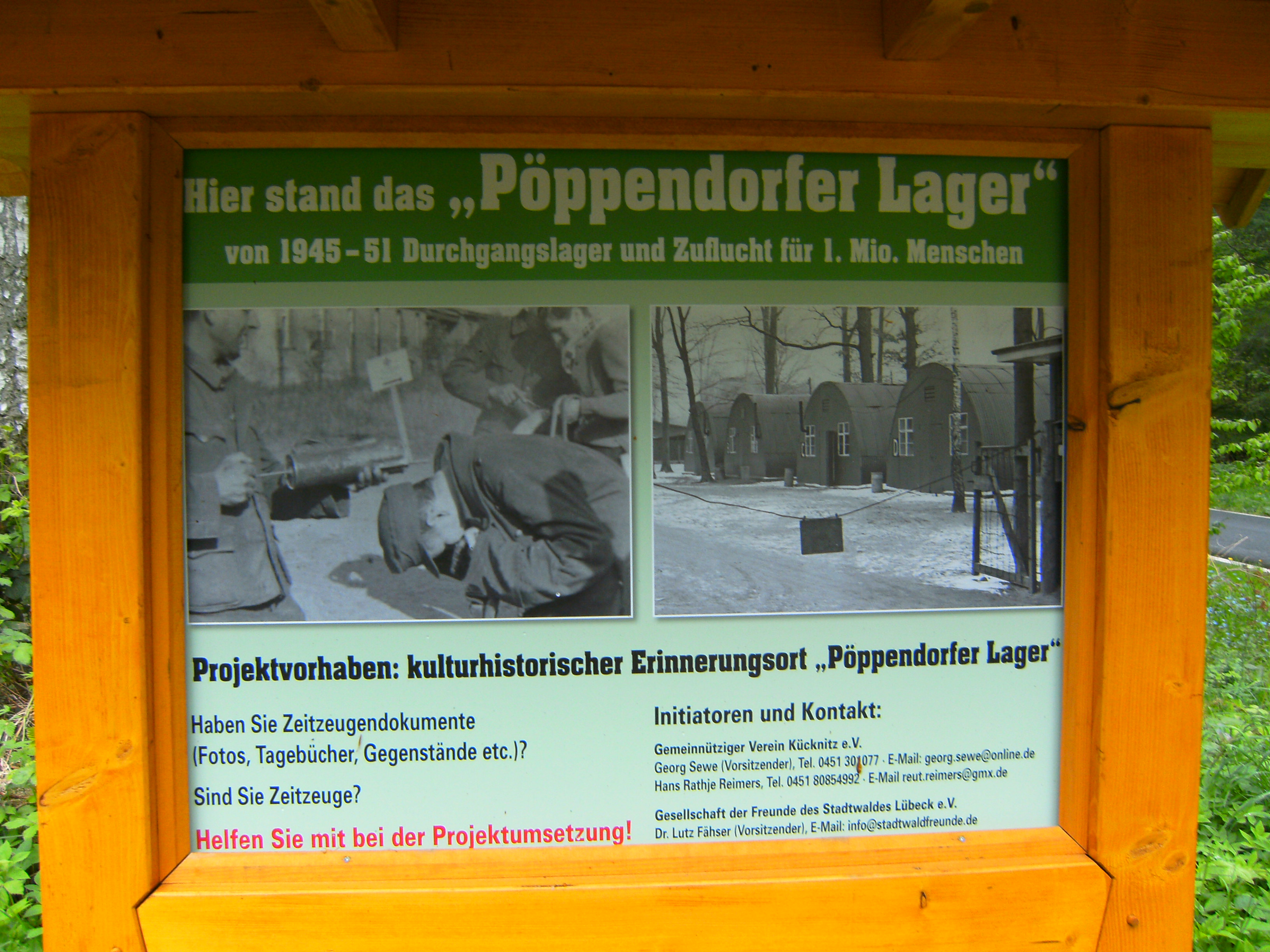 Lager Pöppendorf on the parking area in Waldhusener Forst. Board of remembrance for camp Pöppendorf (Lager Pöppendorf).